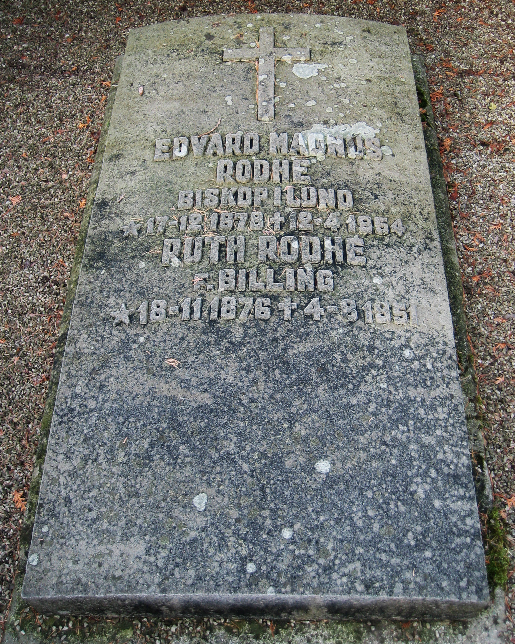 Grave of swedish bishop Edvard Rodhe (1878-1954). Photo taken at Norra kyrkogården, Lund, Sweden, 090111 by the uploader.